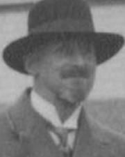 Mathematician Oskar Perron, 1930 at Jena